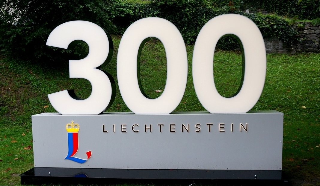 Monument 300 years in Vaduz, Liechtenstein, Europe